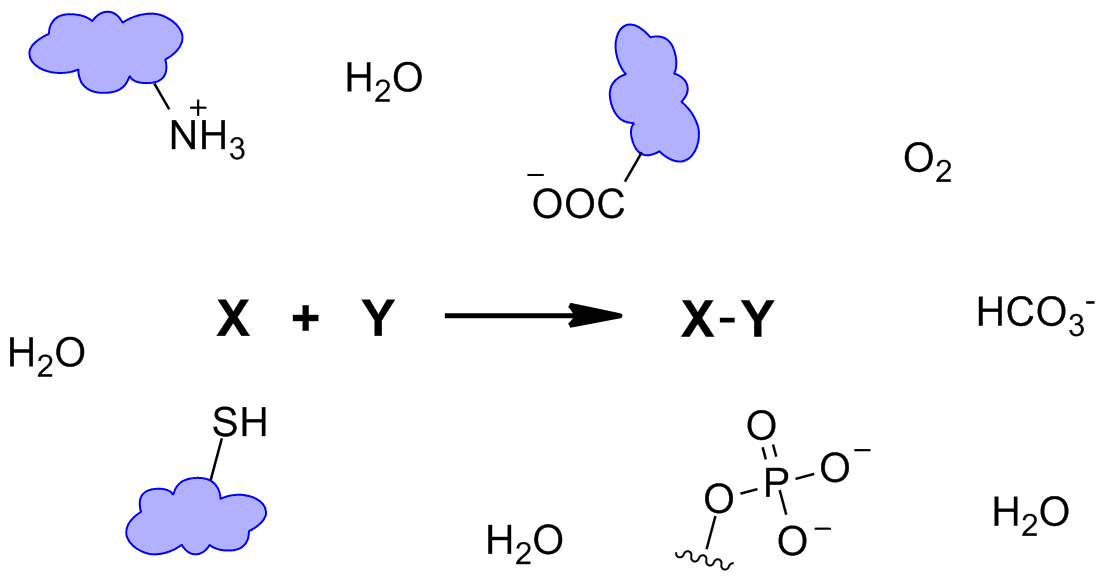 Bioorthogonal Reactions